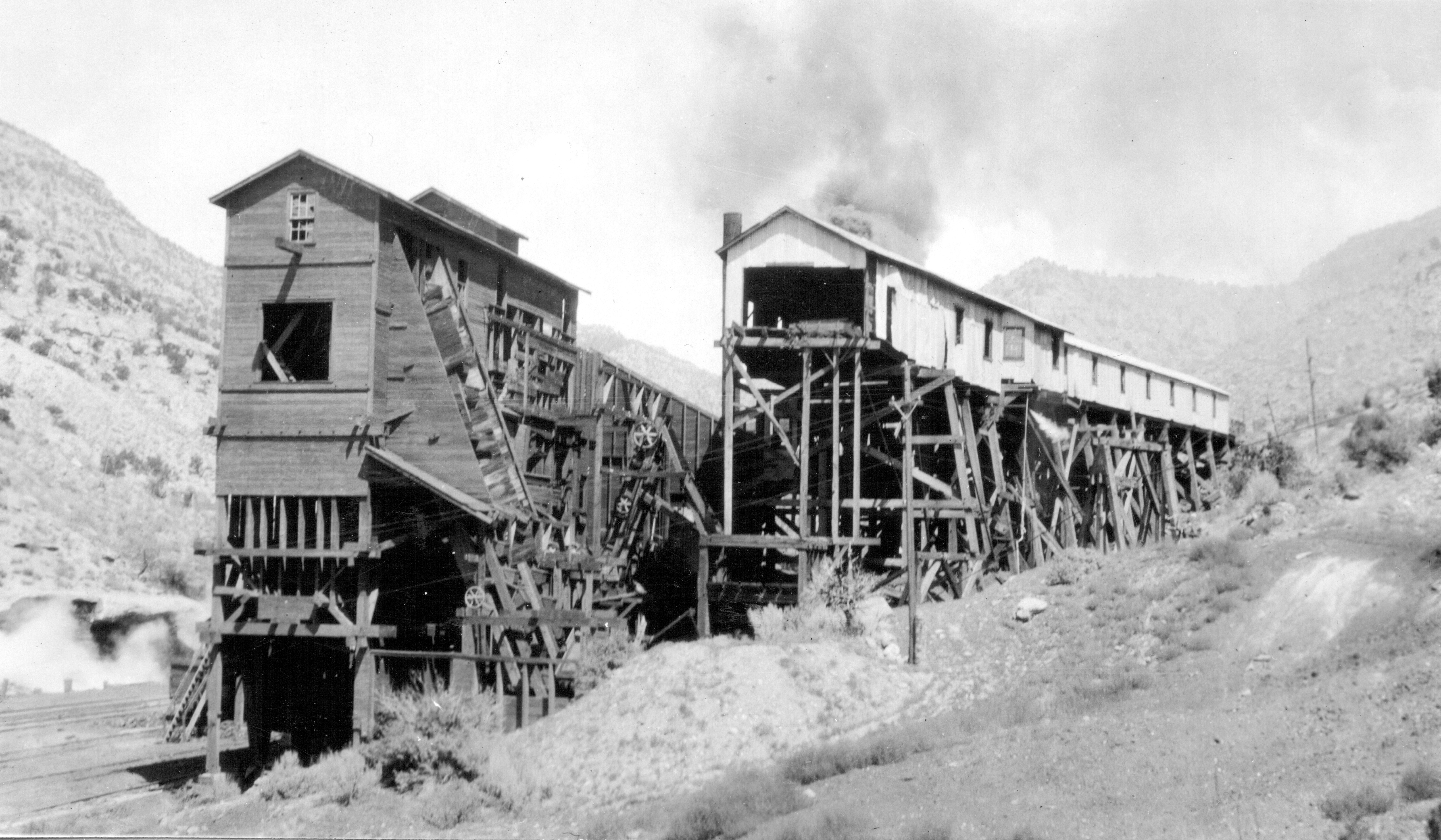 Tipple and screening plant of Chesterfield Coal Company, old, disused washing house on left (used when mining Palisade zone seam). Sego. Grand County, Utah. August 11, 1926.